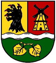 Coat of Arms of Eystrup